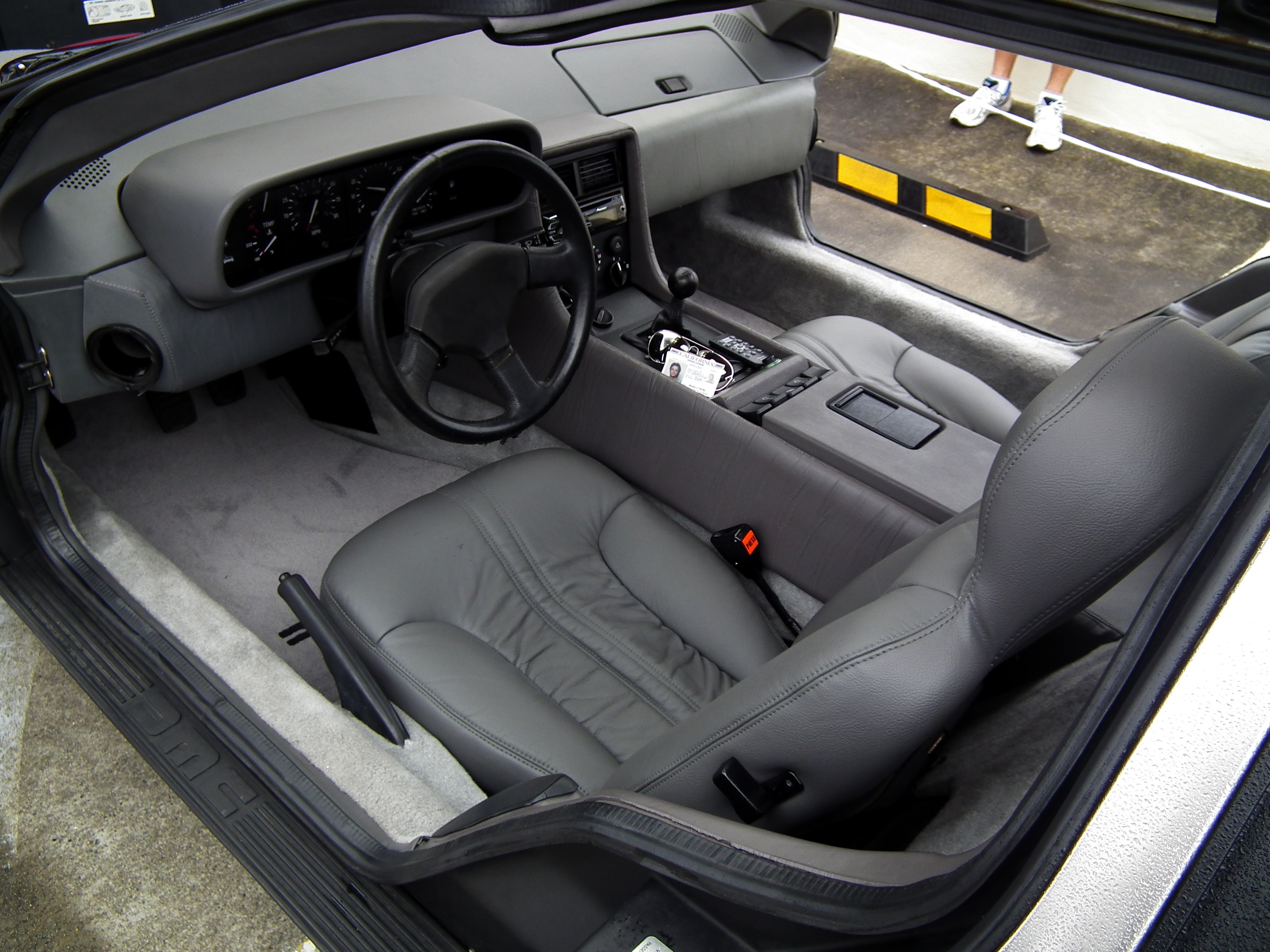 1982 De Lorean DMC12 coupe interior. Taken at the 2013 New South Wales All American Day, held at Castle Towers Shopping Centre, Castle Hill, Sydney.